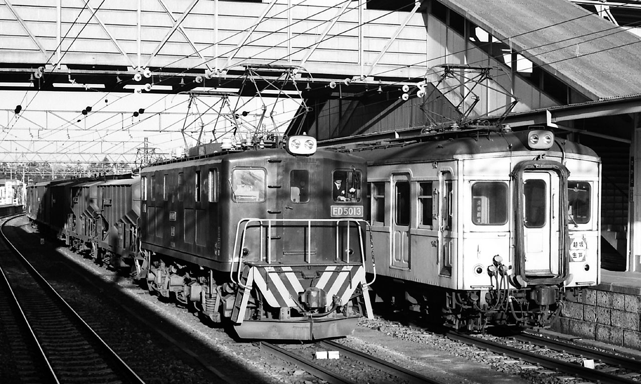 A Tobu ED5010 electric locomotive on a freight service and a 7800 series 4-car EMU on an Ogose Line service at Sakado Station